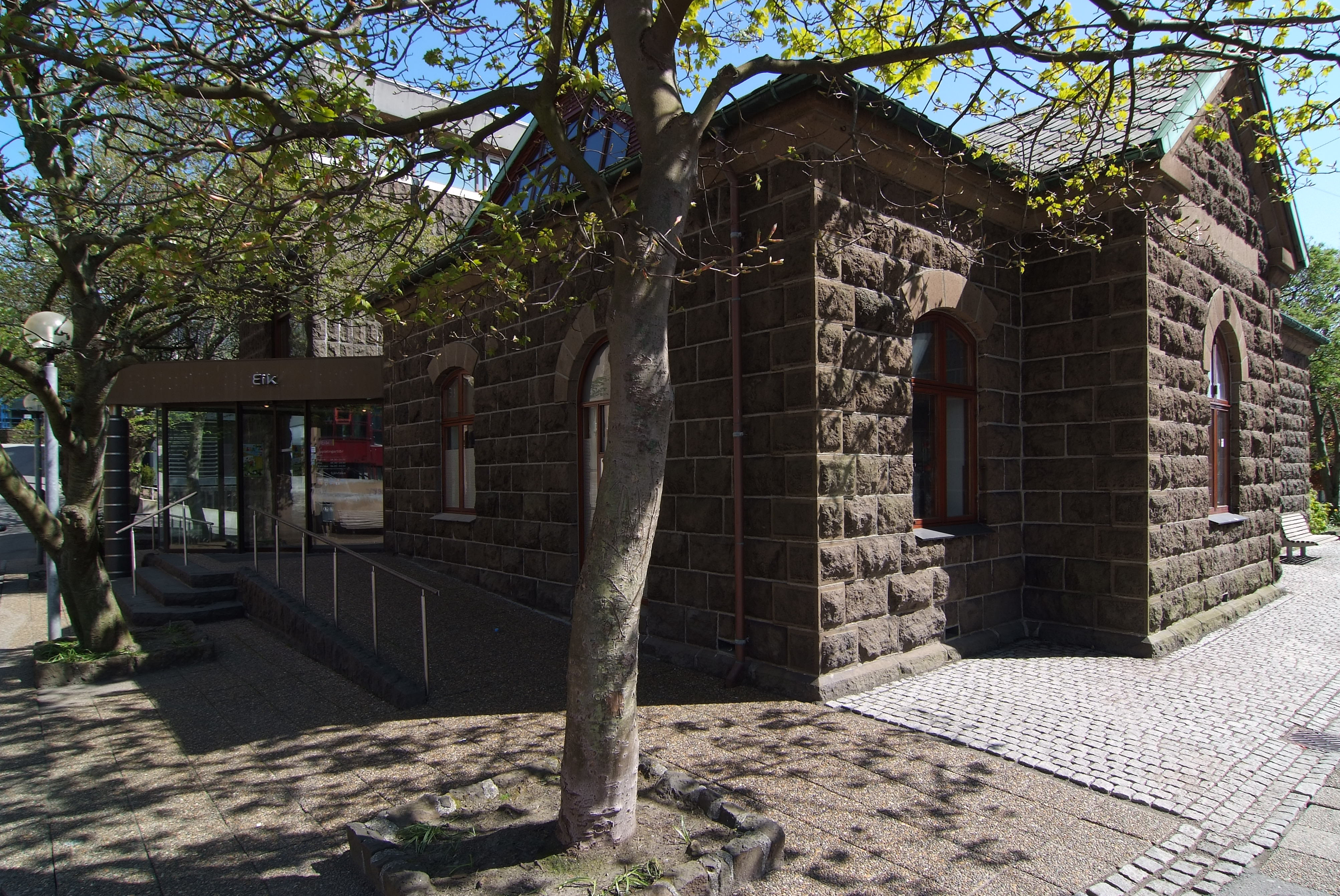 Where we got our money from :-)